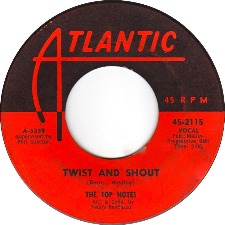 "Twist and Shout" by The Top Notes; B-side label of "Always Late (Why Lead Me On)", US release